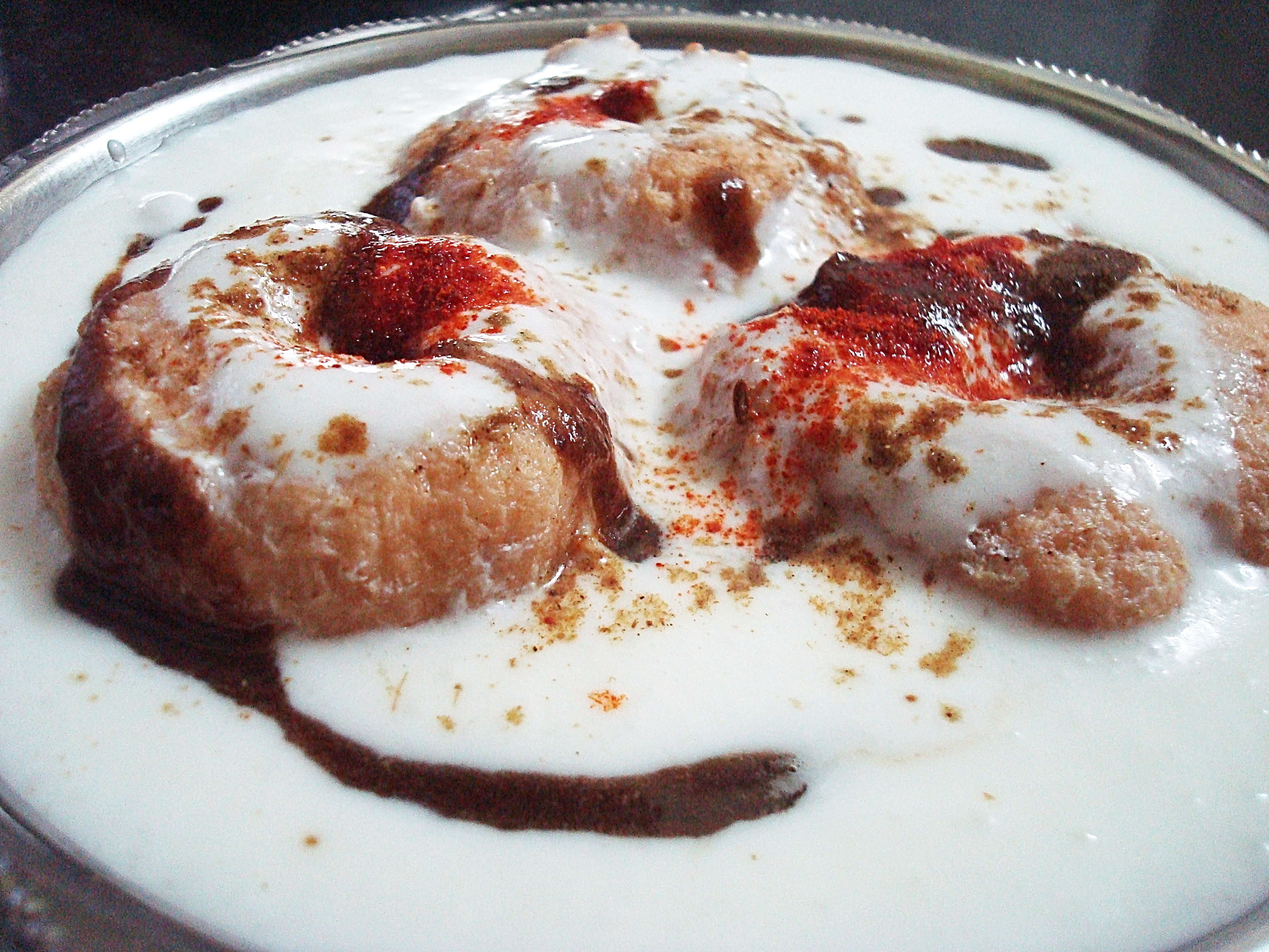 A plate full of Dahi Vadas. The Vadas are sprinkled with chat masala powder, cumin powder, red chili powder and tamarind-jaggery chutney.